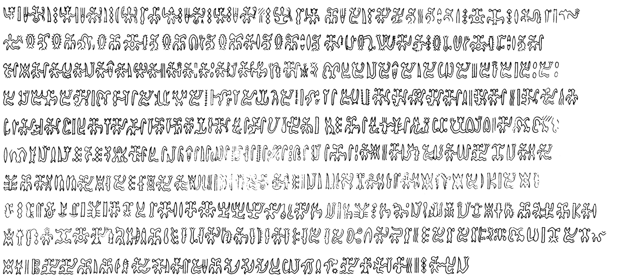 Barthel's tracing of rongorongo tablet B, recto